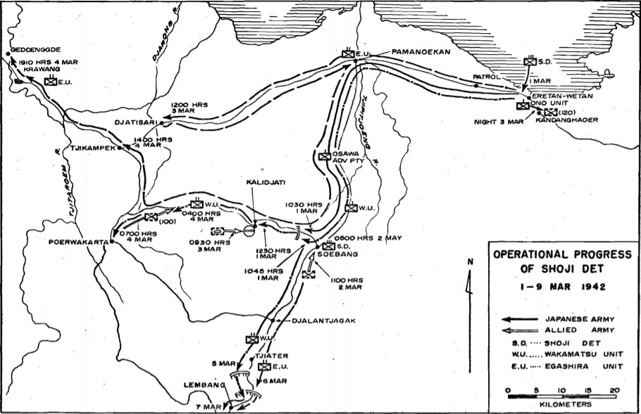 Operational progress of the "Shoji Detachment" during the Battle of Java, from the landing at Eretanwetan to the Battle of Tjiater Pass